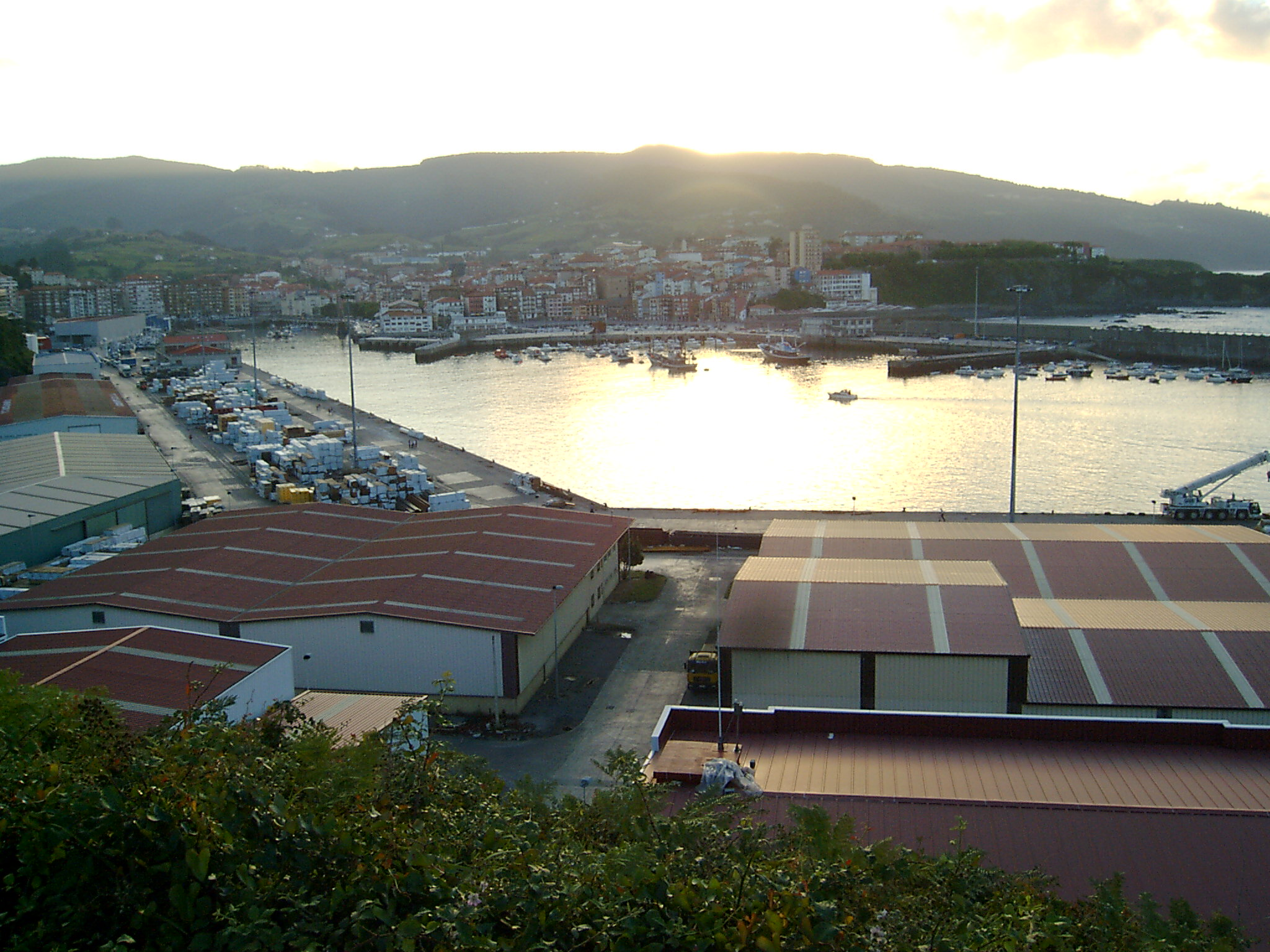 Commercial port of Bermeo (Biscay).